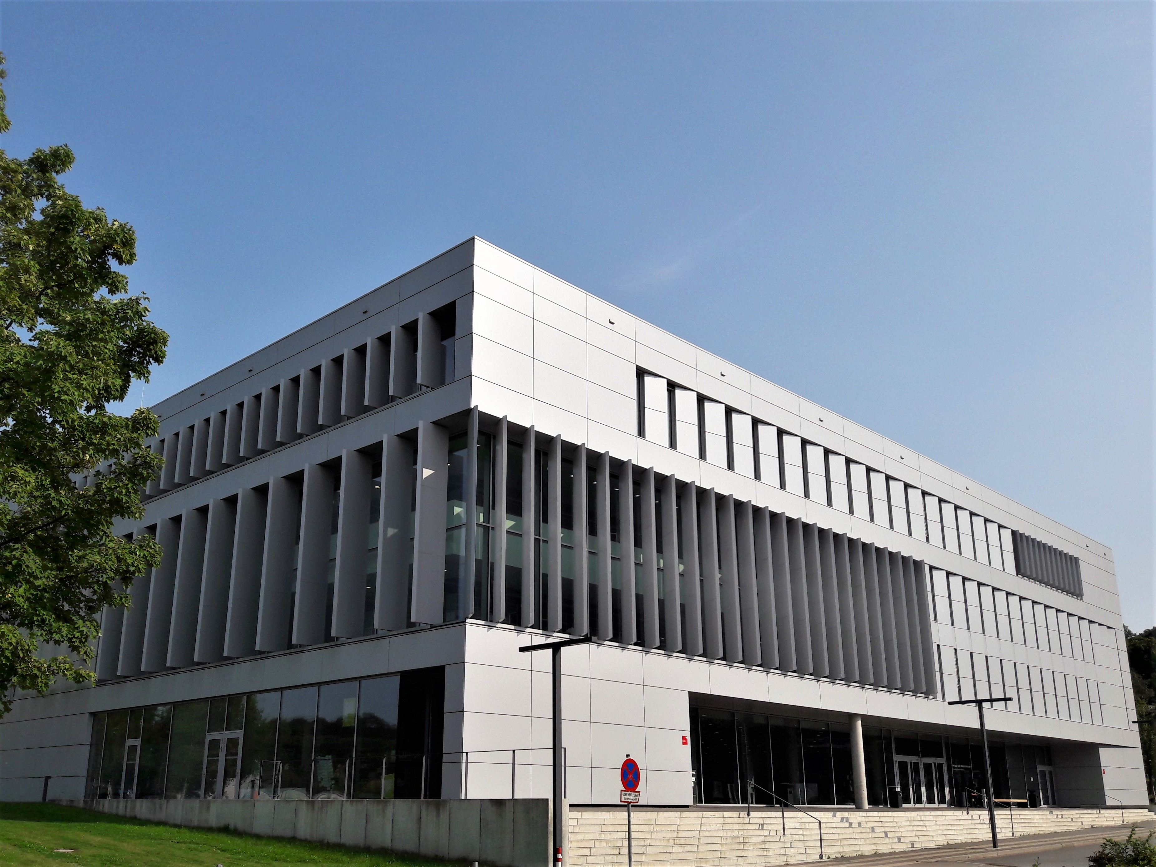 Lecture Hall and Library Building at Lichtwiese Campus of Darmstadt University of Technology, Germany